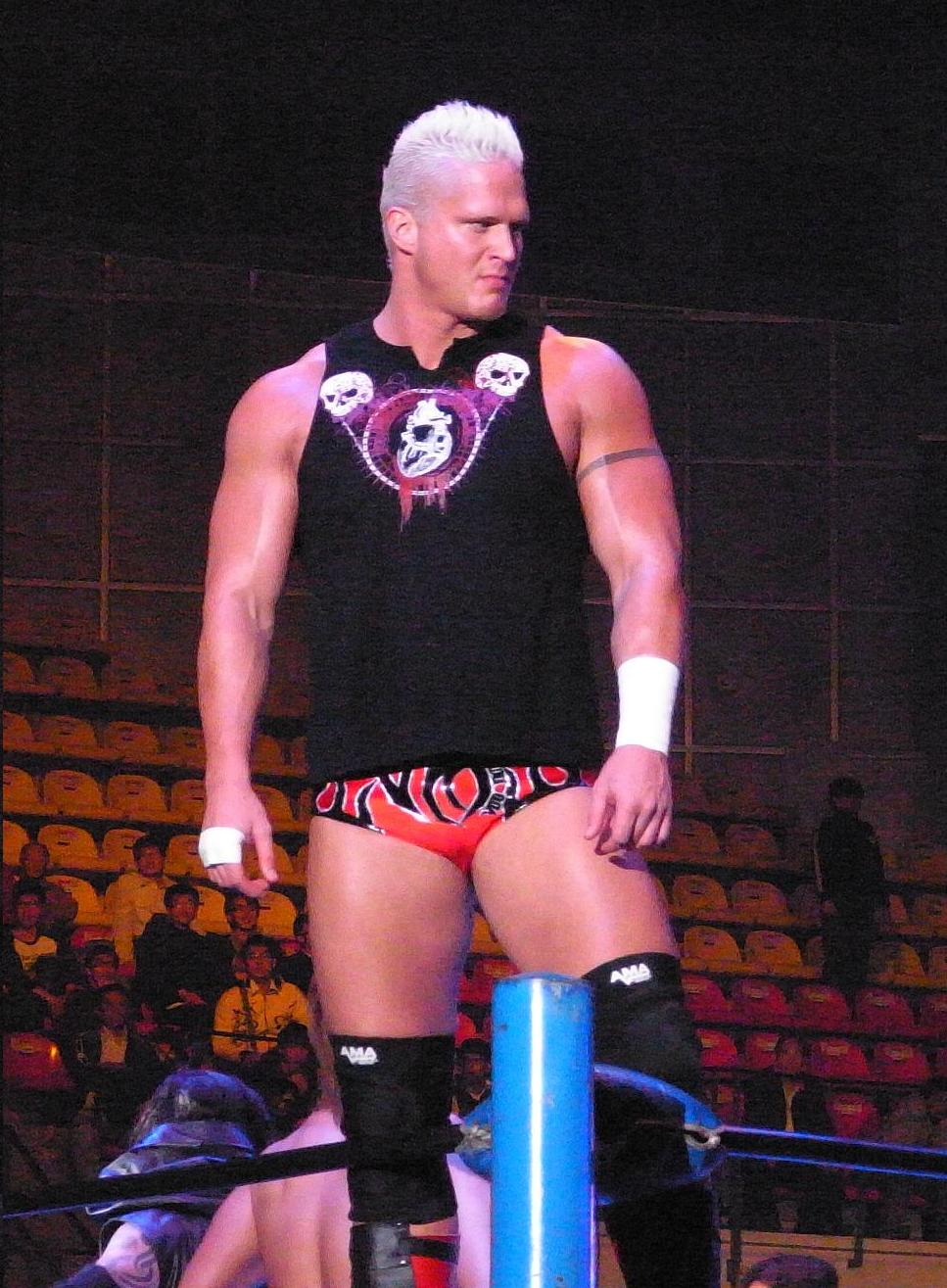 Professional wrestler Joe Doering at an All Japan Pro Wrestling event